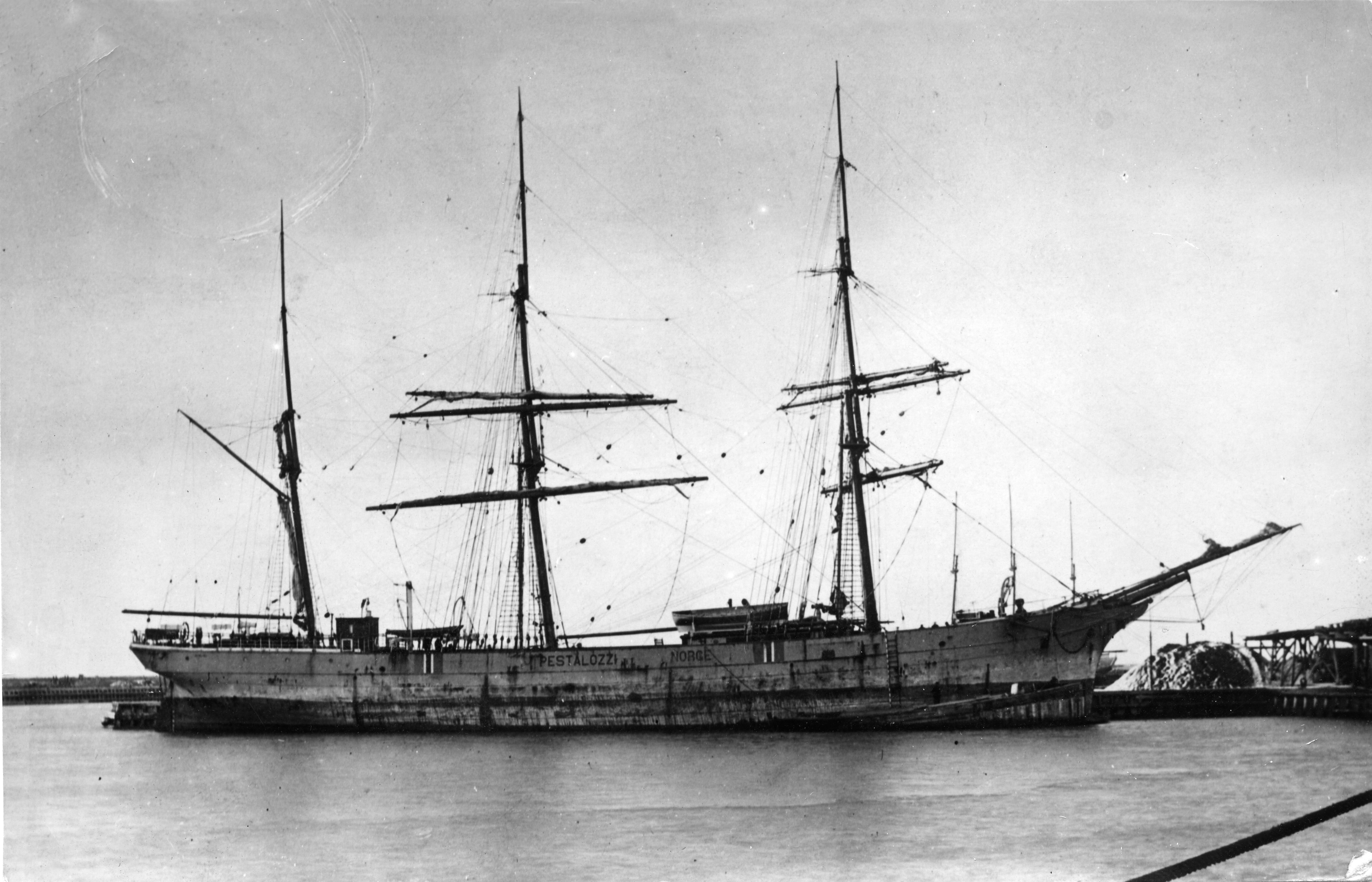 Pestalozzi of Lillesand. ca. 1917